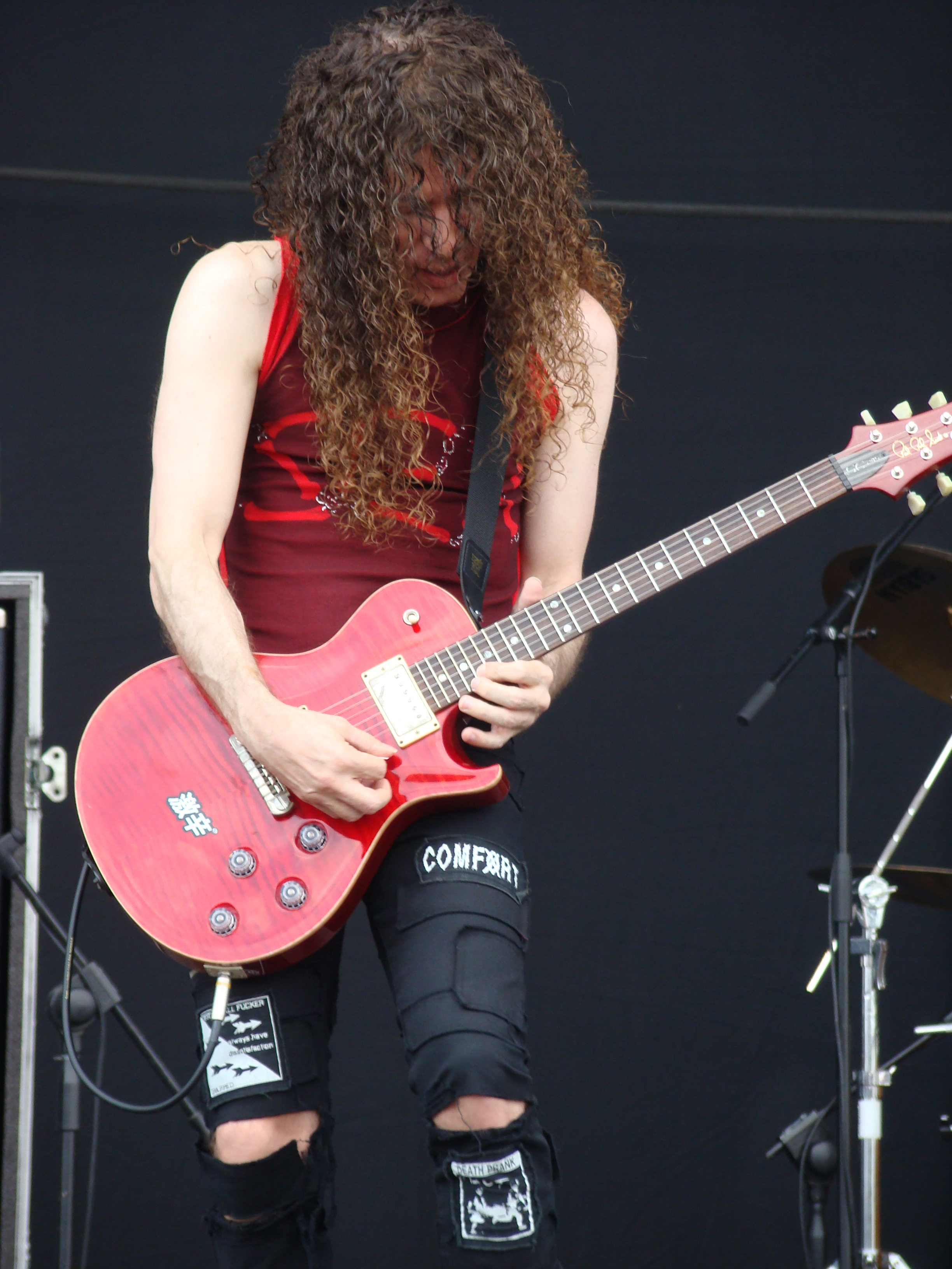 Marty Friedman at Gods of Metal 2009.